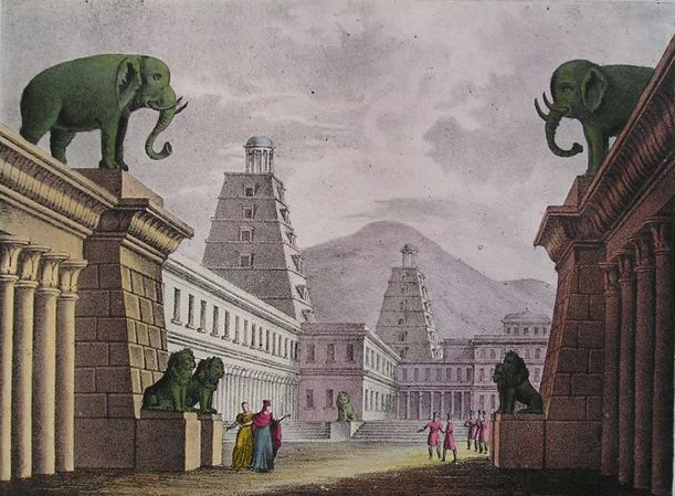 Gioachino Rossini - Semiramide - Alessandro Sanquirico - Milan 1824 - act 1, scene 13 - Luogo magnifico nella reggia